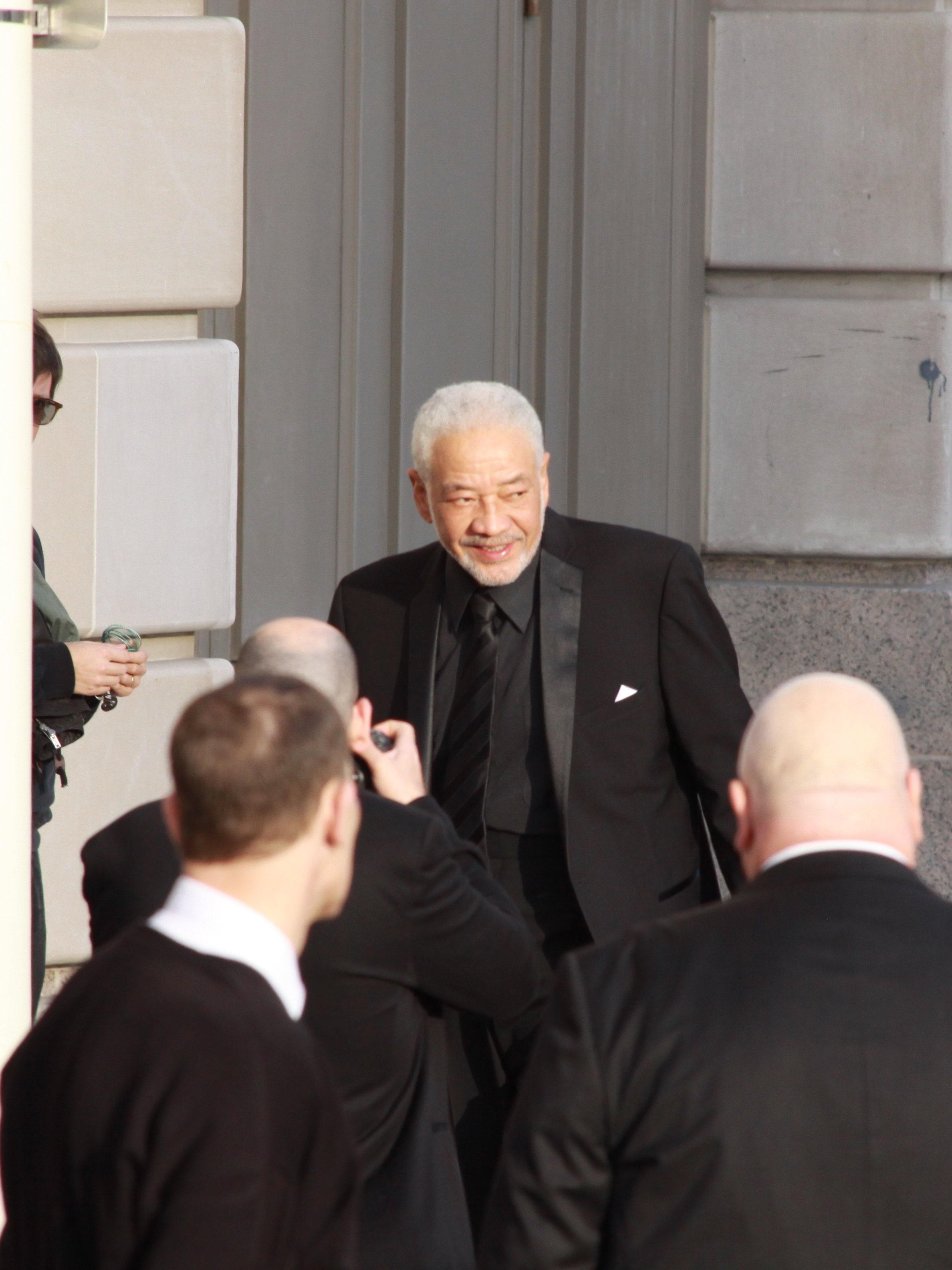 Bill Withers arrives at the Rock and Roll Hall of Fame Induction Ceremony